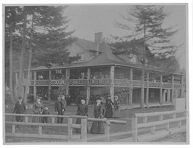 Caption on image: Stockade Hotel Alki Point. Site of the first settlers landing. 11/13/05 . Peiser 351 Subjects (LCTGM): Stockade Hotel (Seattle, Wash.); Hotels--Washington (State)--Seattle; West Seattle (Seattle, Wash.) The Stockade Hotel was built some time between 1901 and 1903 (sources disagree) near the present-day corner of 63rd Avenue SW and Alki Avenue SW. Not sure when it was demolished.